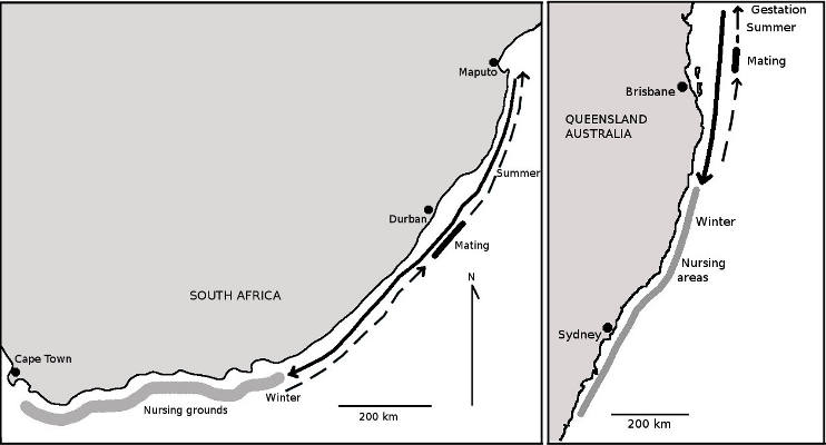 Annual movements of ragged tooth sharks